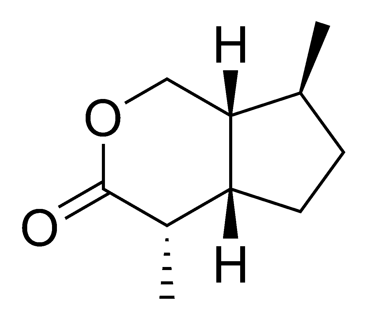 Chemical structure of the cat attractant iridomyrmecin